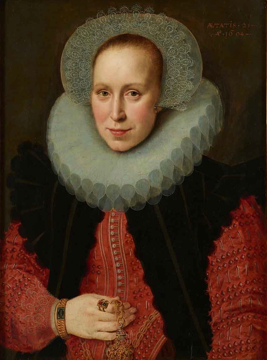 Isabeau (Isabella) de Hertoghe (1583–1636), a member of one of the Seven noble houses of Brussels. Married to Hamburg Senator, merchant and patrician Rudolf Amsinck.